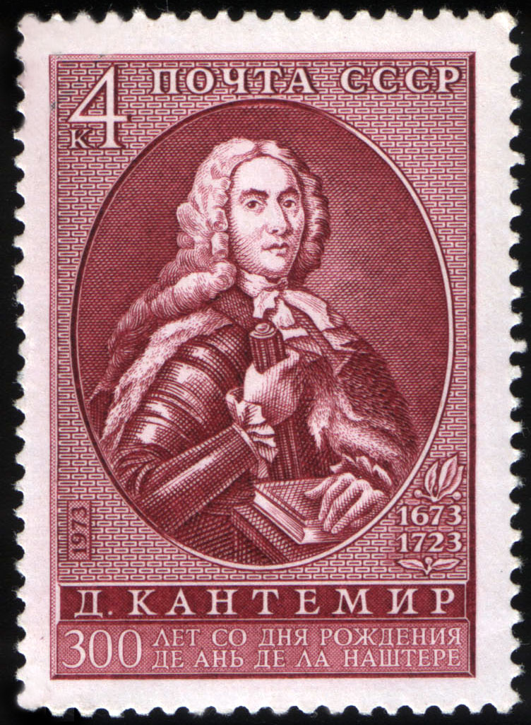 USSR stamp, D. Cantemir, 1973, 4 k.